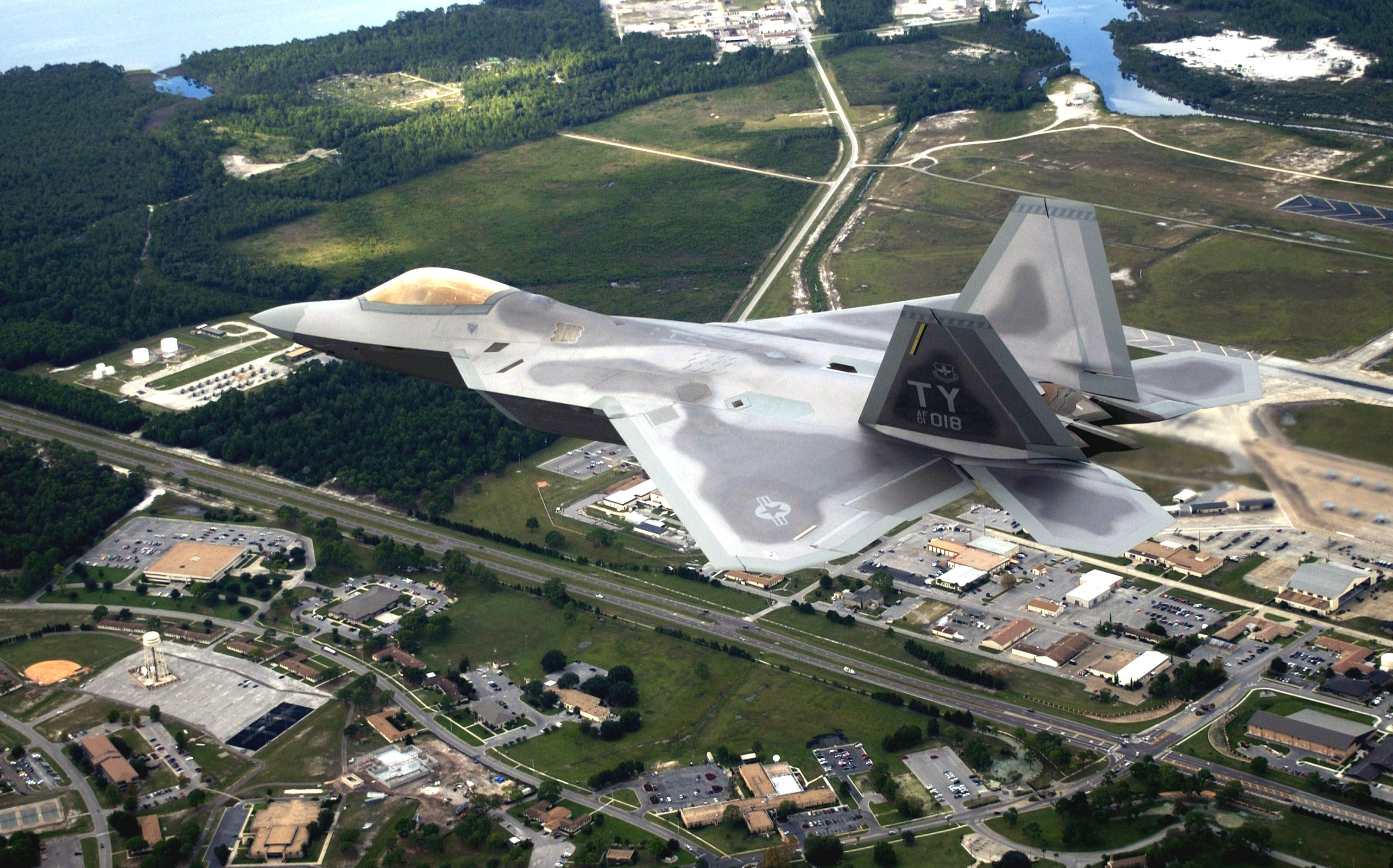 TYNDALL AIR FORCE BASE, Fla. -- The first operational F/A-22 Raptor flies over the base on its delivery flight. Tyndall is home of the world's first F/A-22 squadron.